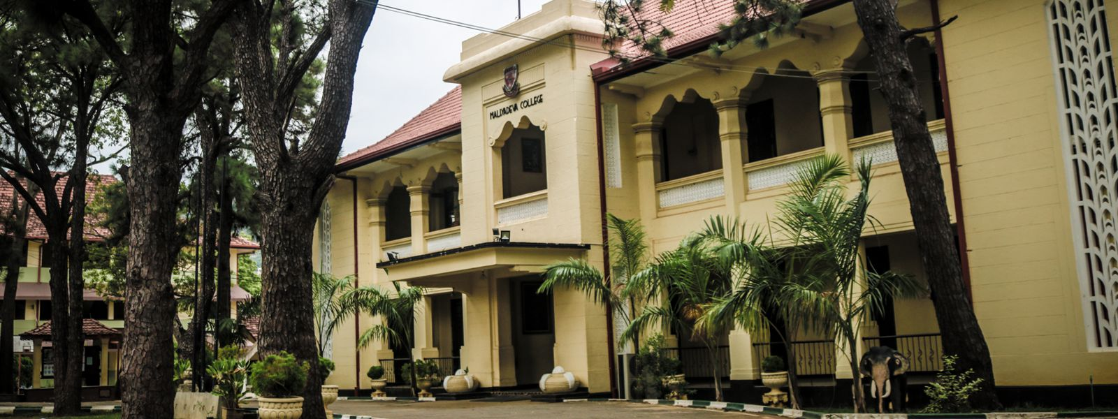 Side View of Maliyadeva College Main Hall